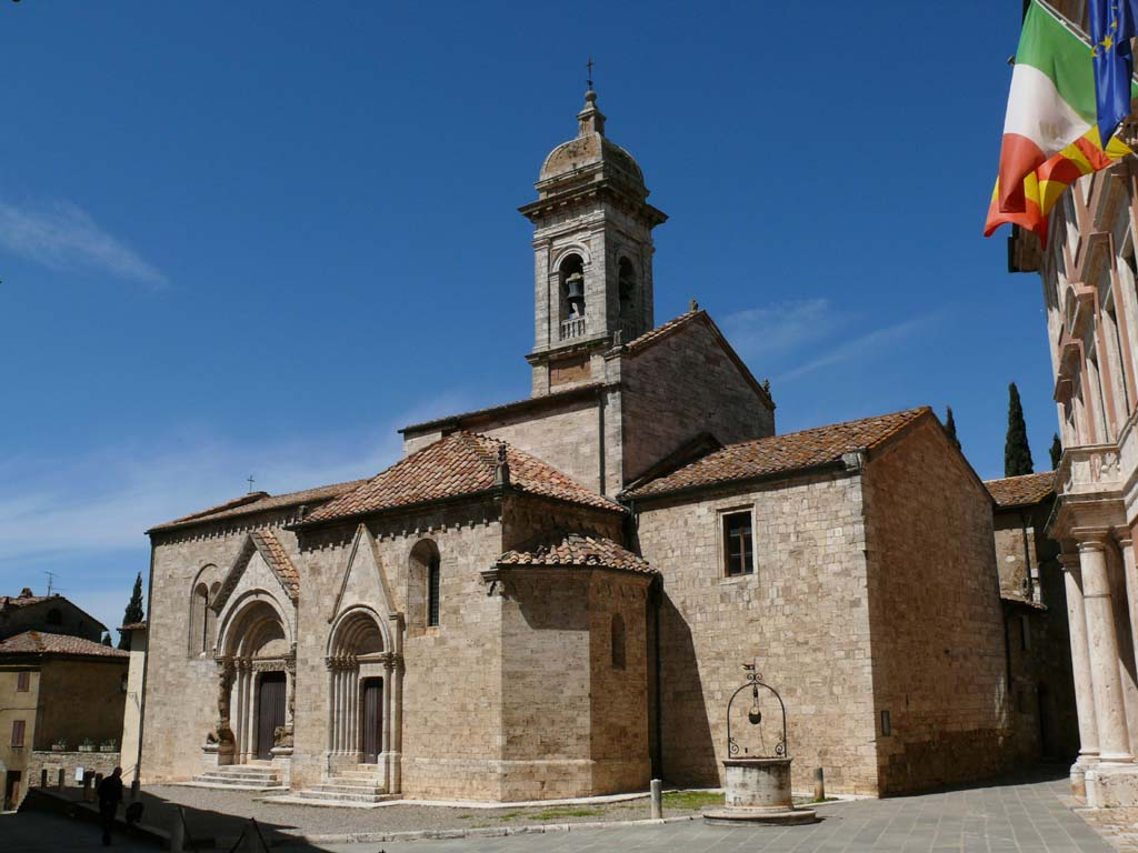 The Collegiate